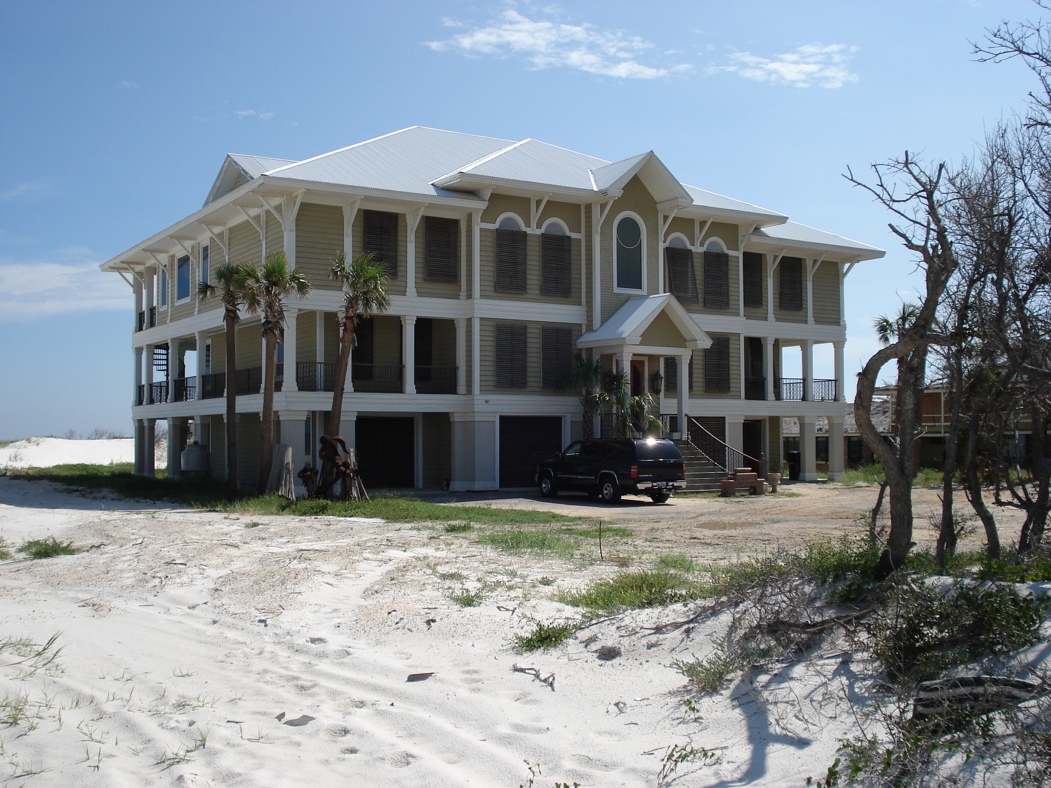 Location: Romar House Bed & Breakfast.